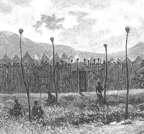 Close-up of Msiri's compound at Bunkeya. The objects on top of the four poles, around which some of Msiri's warriors are gathered, are heads of his enemies. More skulls are on the stakes forming the stockade. (Image has been cropped - SEE ALSO Image:Msiris compound.jpg for uncropped, wider version).